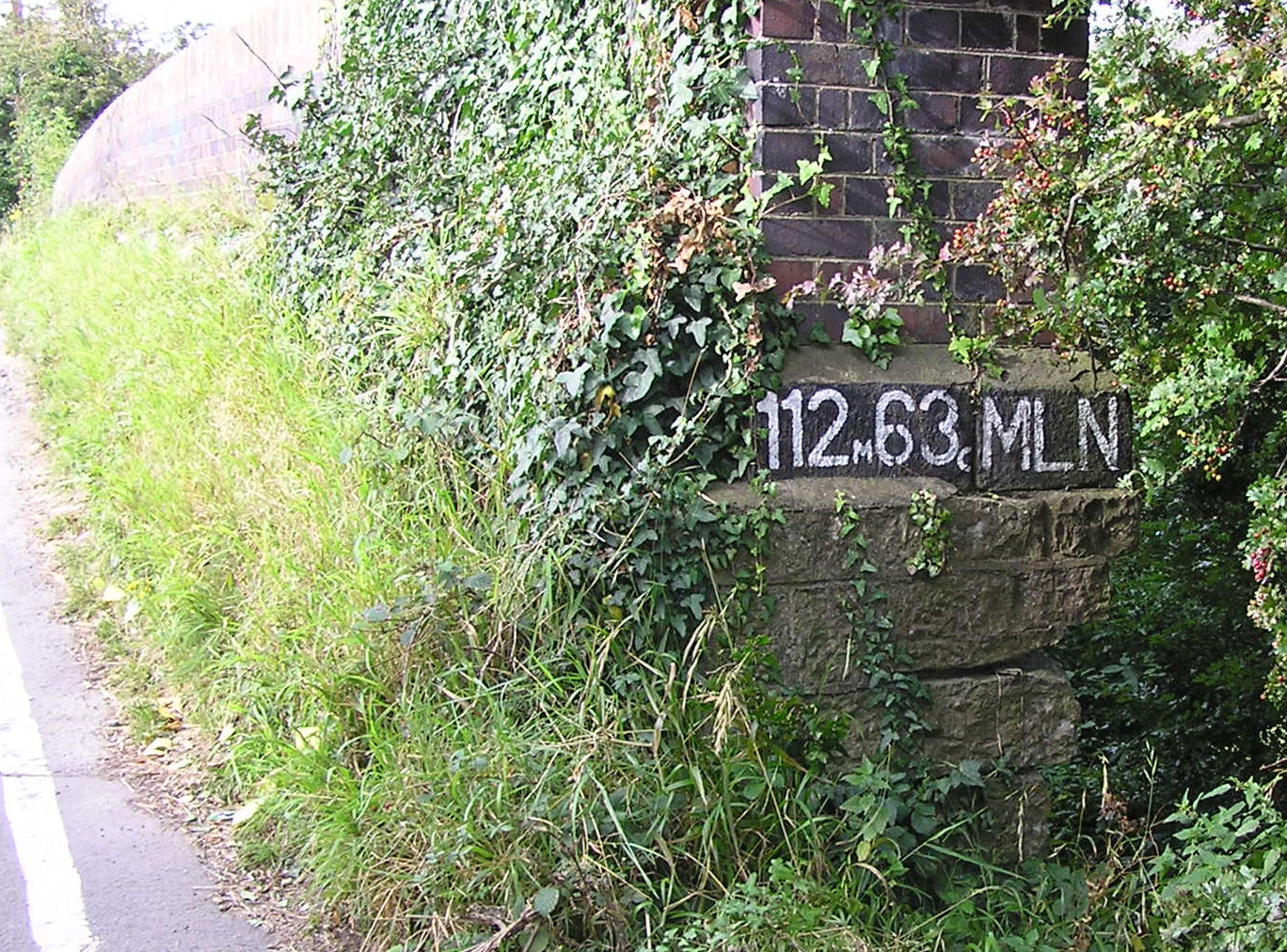 Miles and chains used as a location designator on a British railway bridge